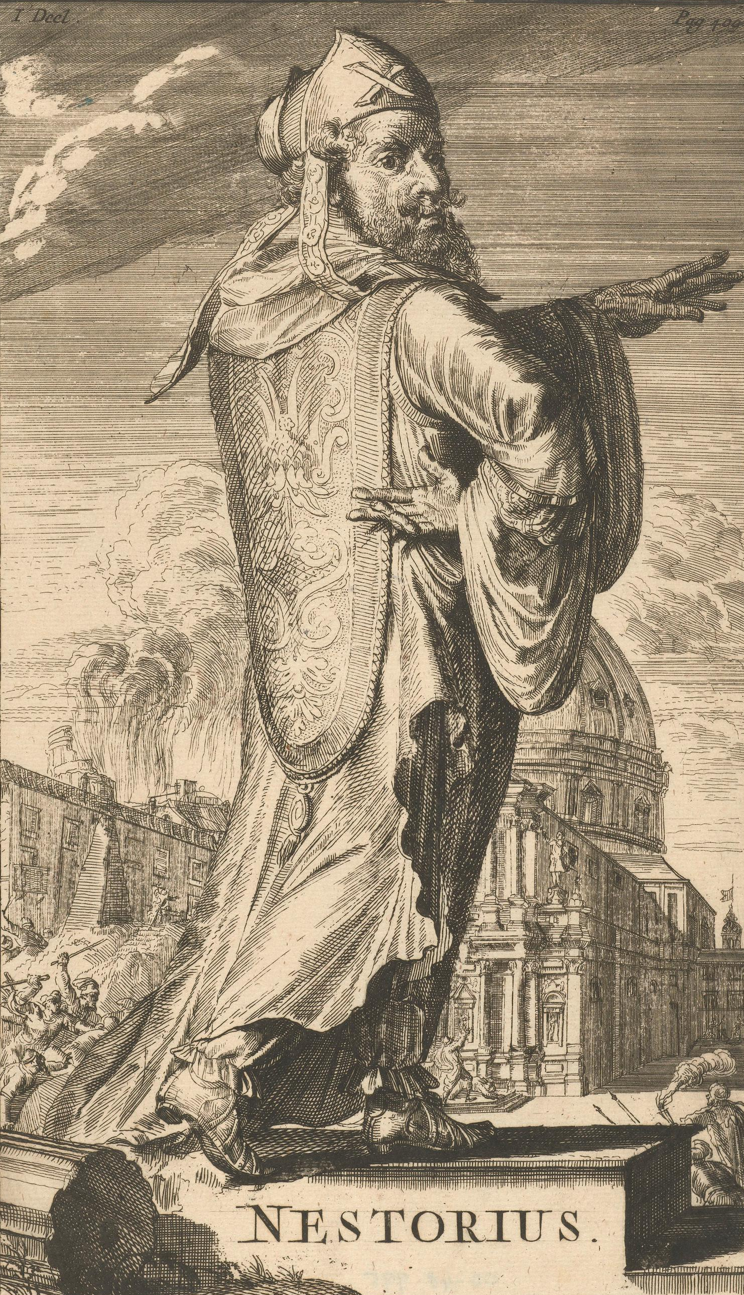 "Portret van Nestorius"